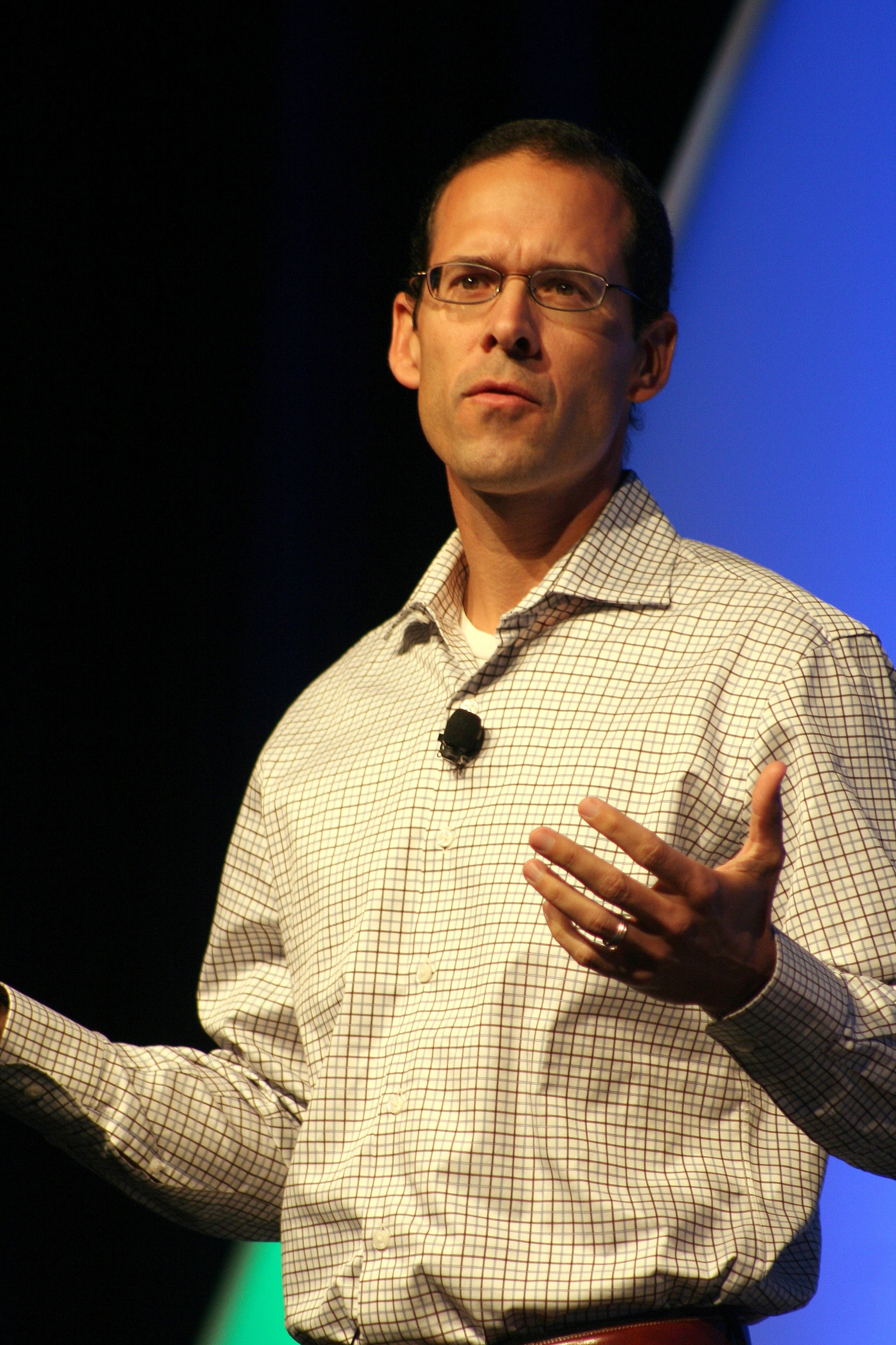 Nov. 7, 2011: Paul DePodesta, vice president of player development and scouting for the New York Mets and a key "Moneyball" figure, speaks at the CCH User Conference in San Antonio.